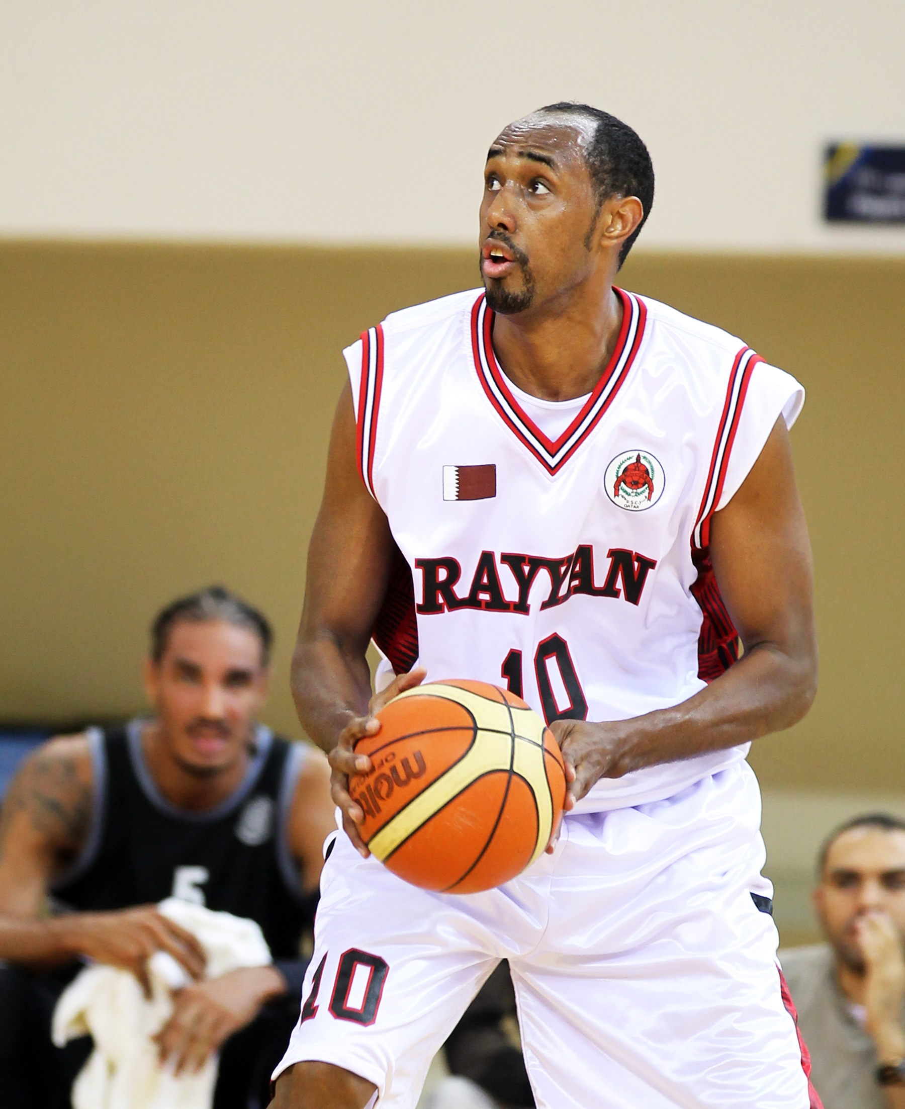 Al Rayyan captain Yasseen Moussa is poised to shoot during his team's Qatar League game against Al Sadd at the Al Gharafa Indoor Hall. Picture by Mohan